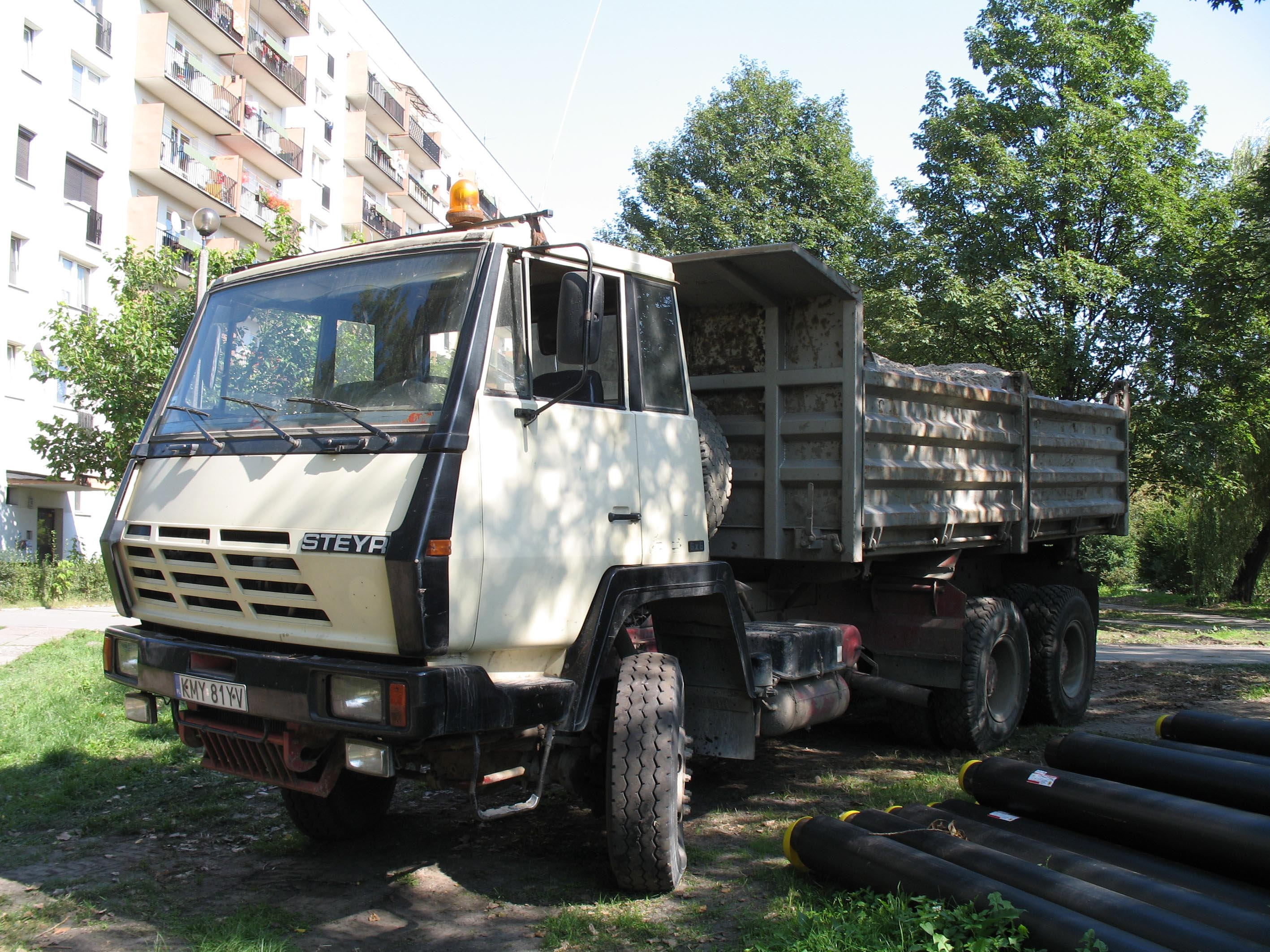 Steyr 6x6 dump truck in Kraków, Poland.